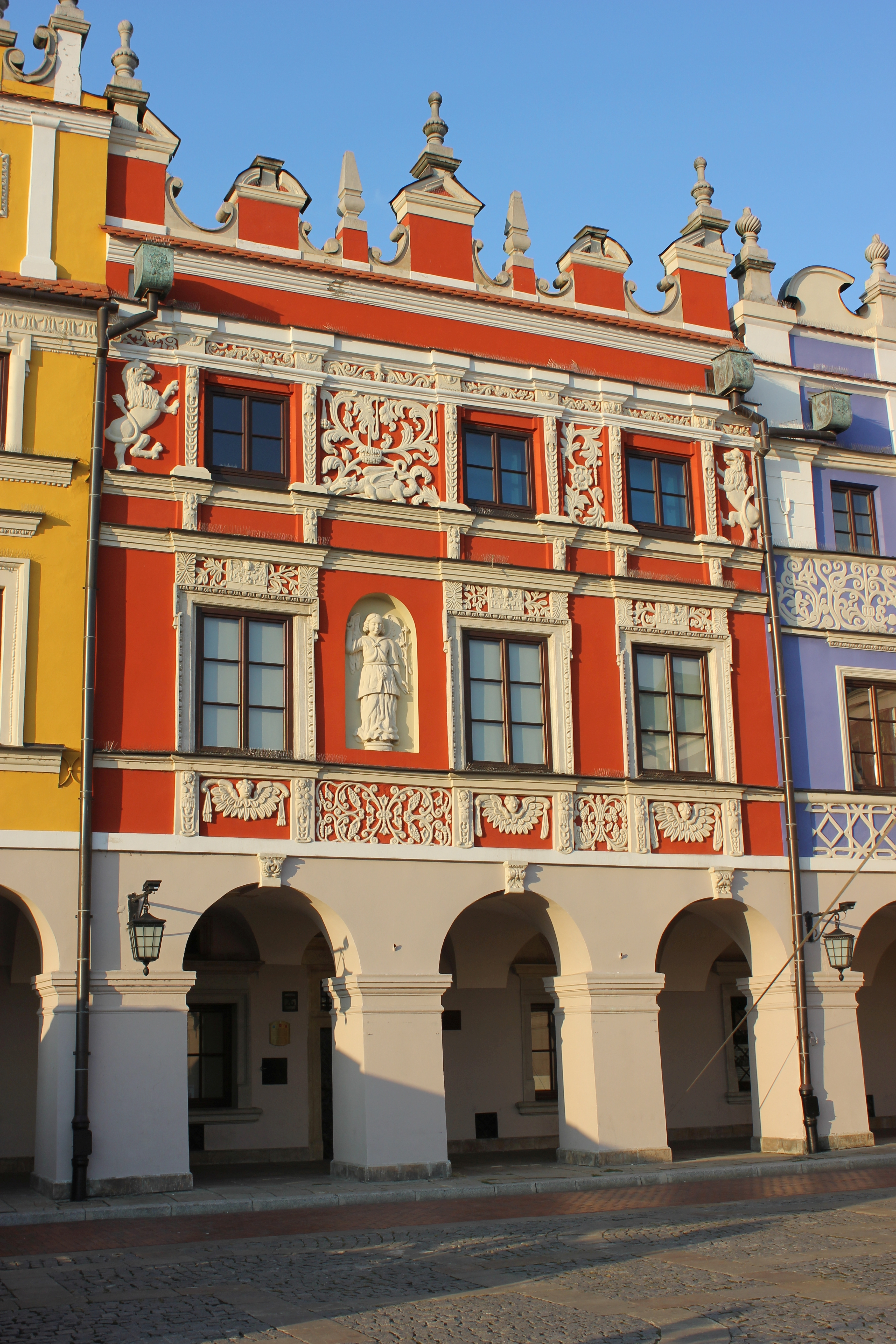 Zamość - Armenian Houses